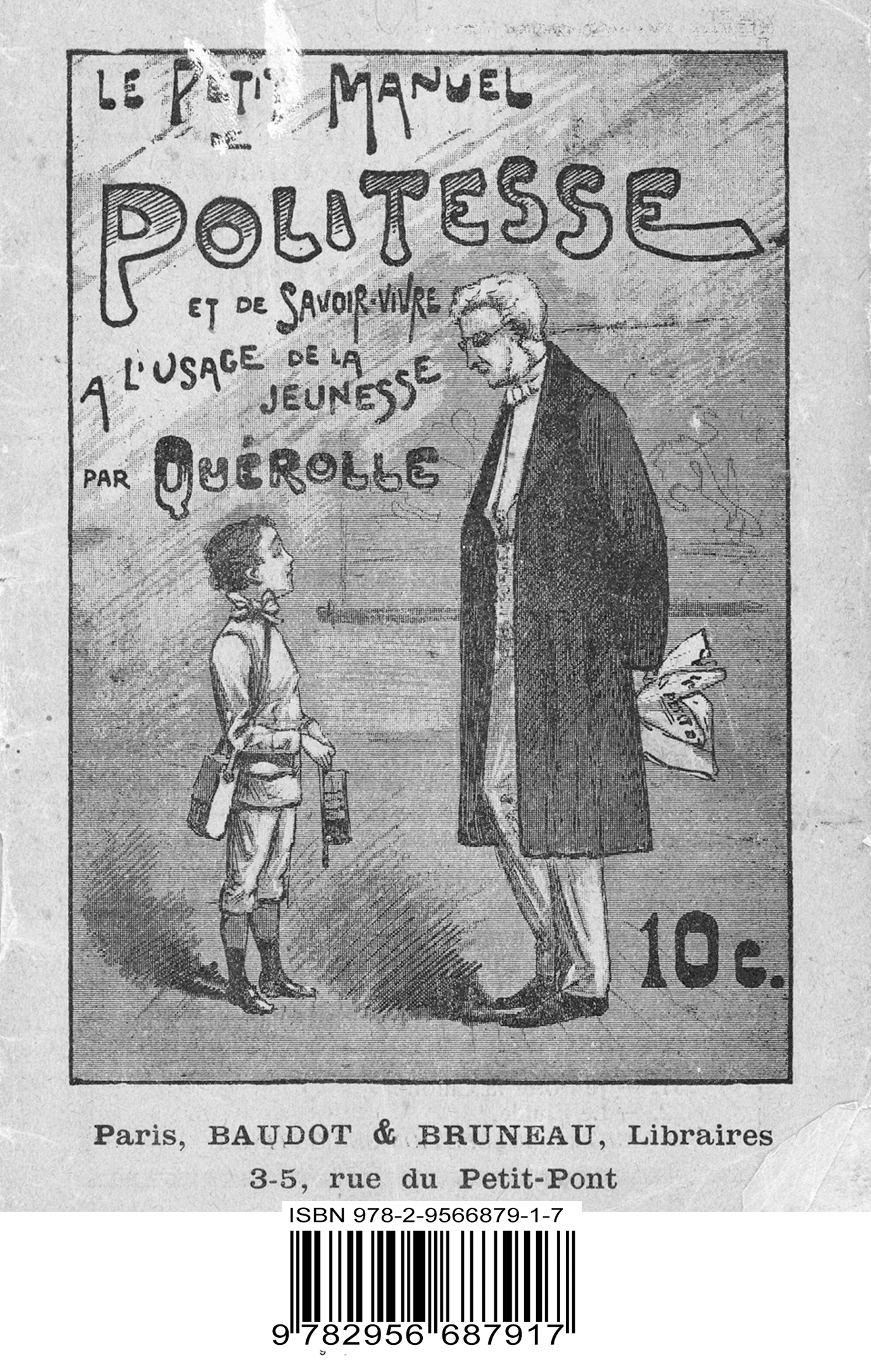 This cover representing a man standing, educating a child is depicted in The Cornhill Magazine, 1904, p.537-544